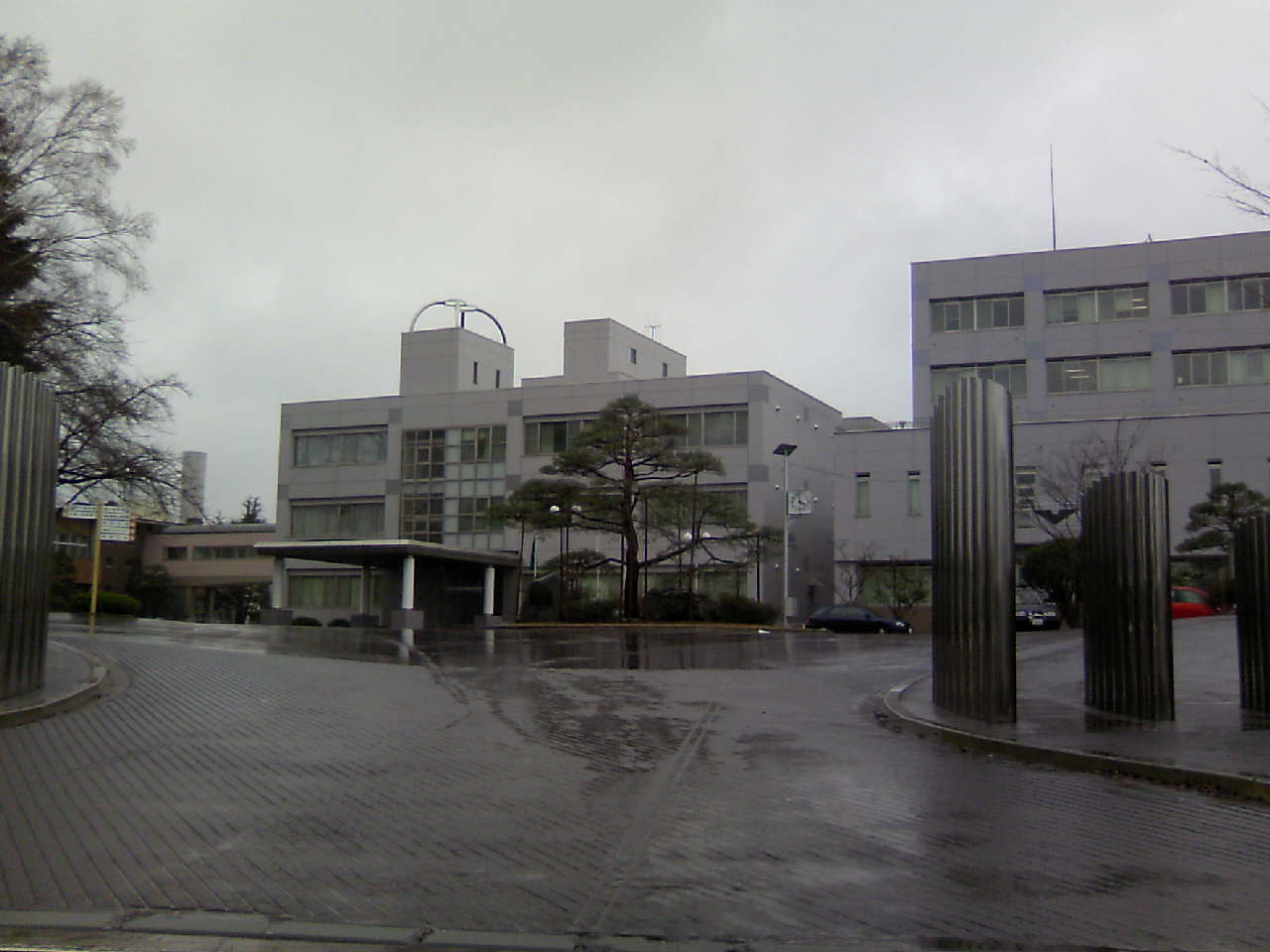 国立八戸工業高等専門学校・正門 (Hachinohe National College of Technology - HACHINOHE, AOMORI, JAPAN)